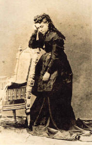 Dolores Sopeña, foundress of several religious congregations, in a photograph, ca. 1900